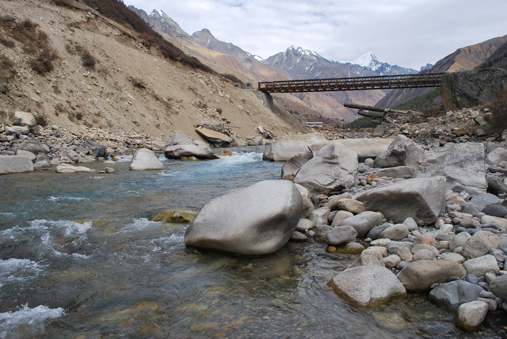 Bridge over Baspa River near Chitkul